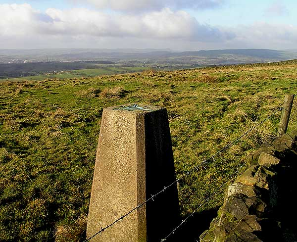 400m trig point on Morridge. Looking North West